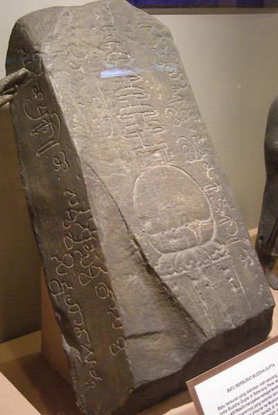 Buddhagupta stone - BuddhaguptaStone001.jpg